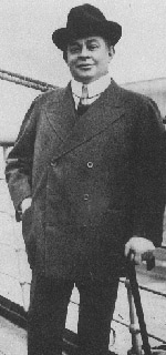 Charles Frohman (July 15, 1856 – May 7, 1915) was an American theatrical producer.